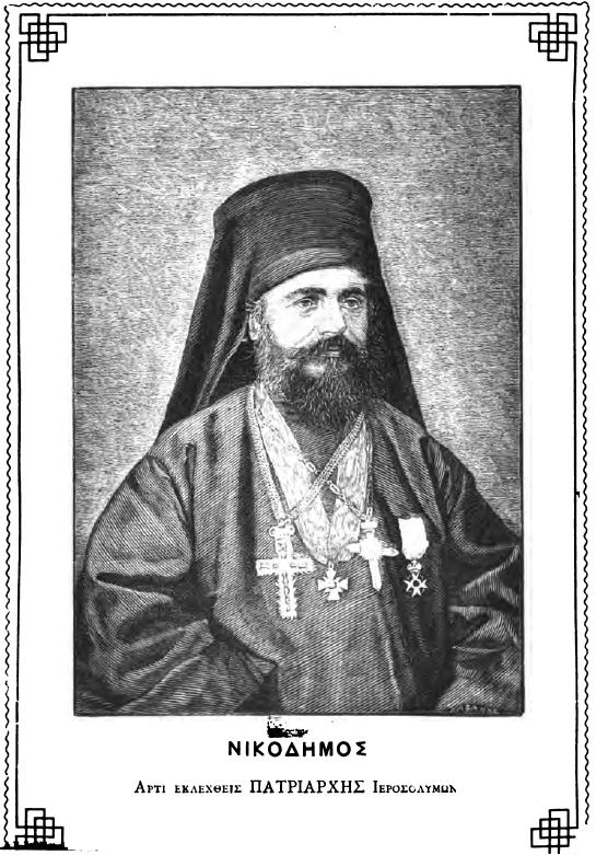 Poikilē stoa: ethnikē eikonographēnenē epetēris ... Etos 1-16, 1881-1914 (1882) Author: Ioannes A. Arsenēs , Michael A . Raphaelobits Volume: 3-4 Publisher: Estia Year: 1882 Possible copyright status: NOT_IN_COPYRIGHT Language: Greek Digitizing sponsor: Google Book from the collections of: Harvard University Collection: americana